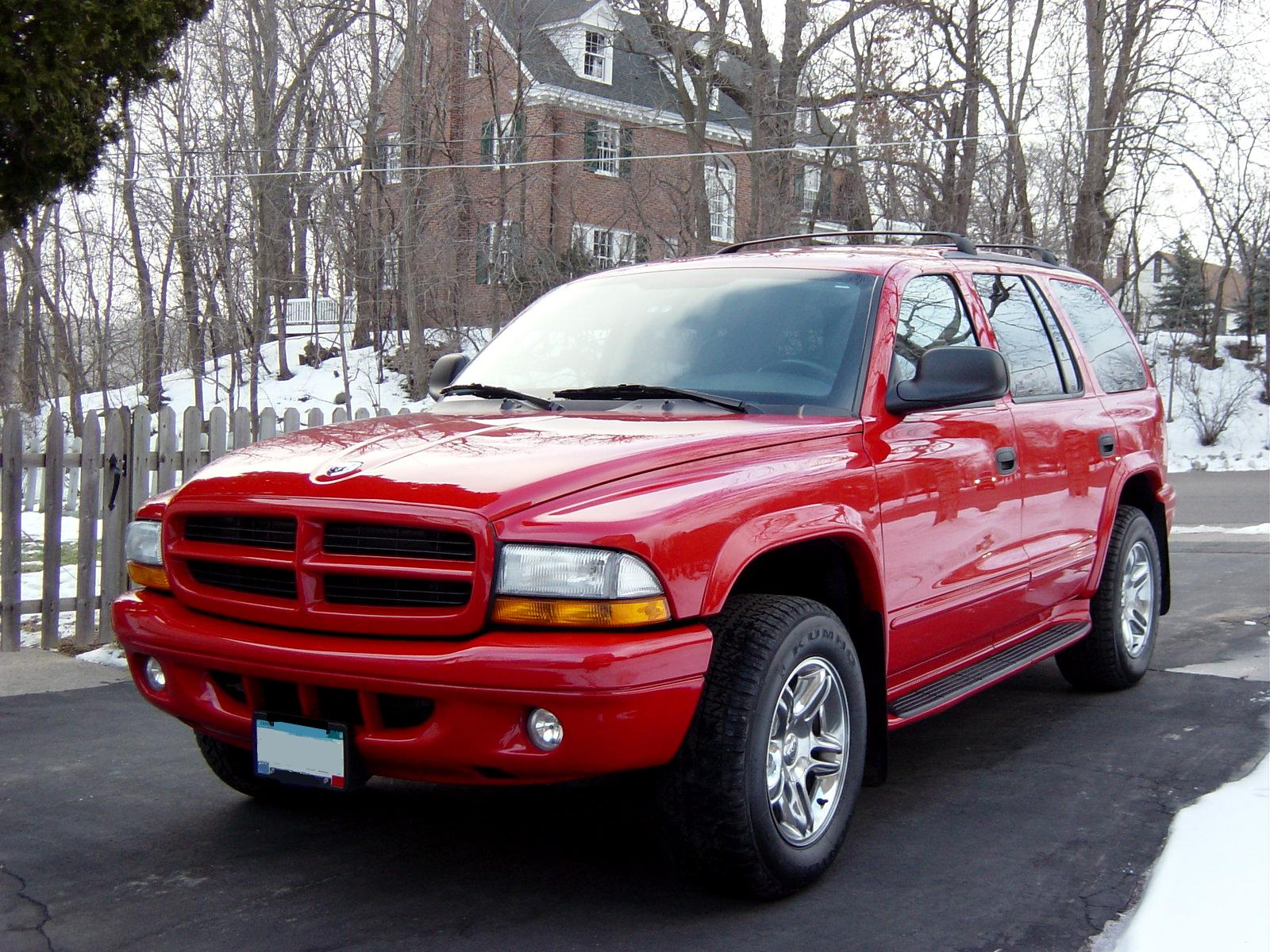 2003 Dodge Durango with the R/T package.